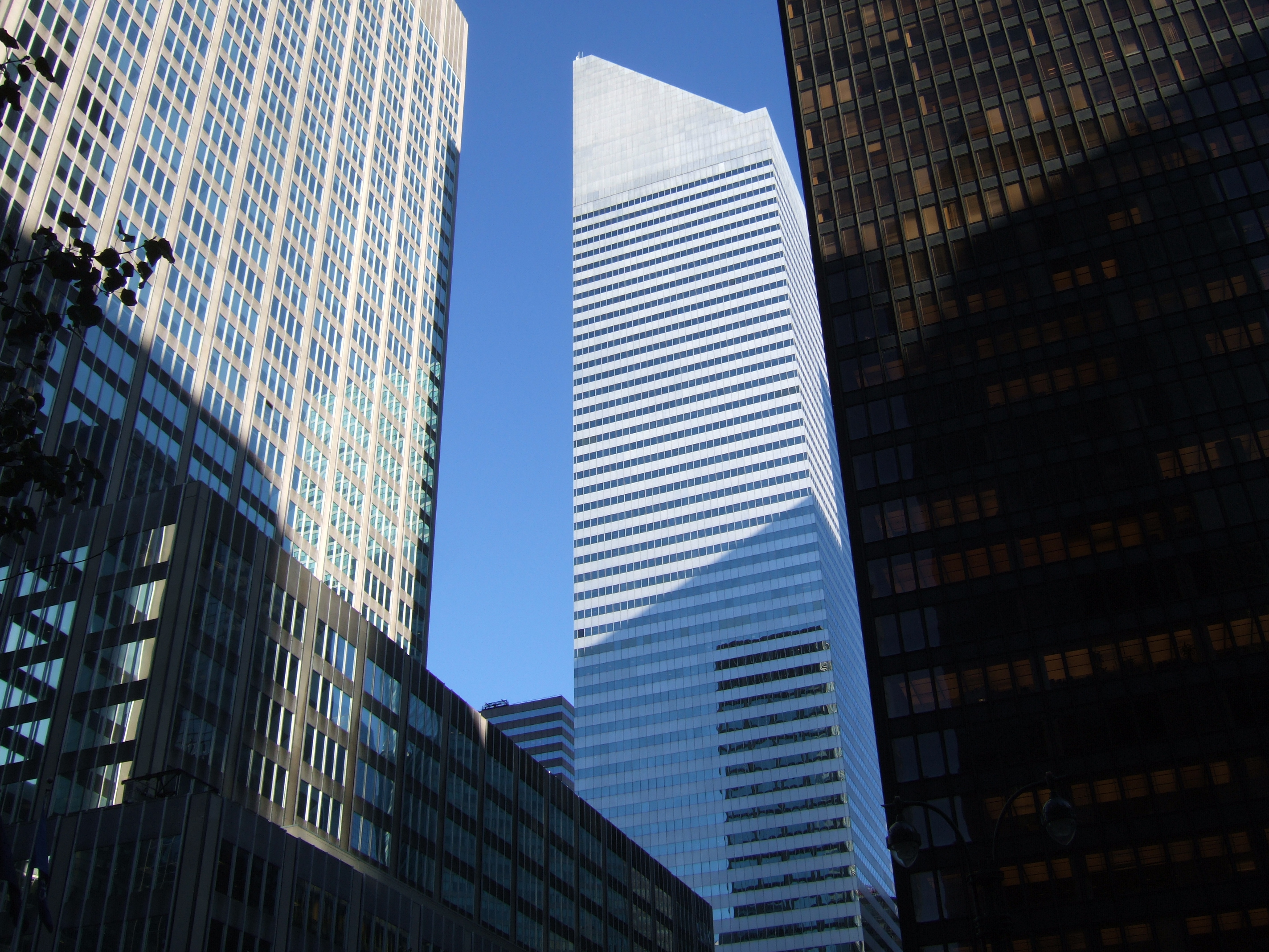 Looking east and up at Citigroup Center in Manhattan.